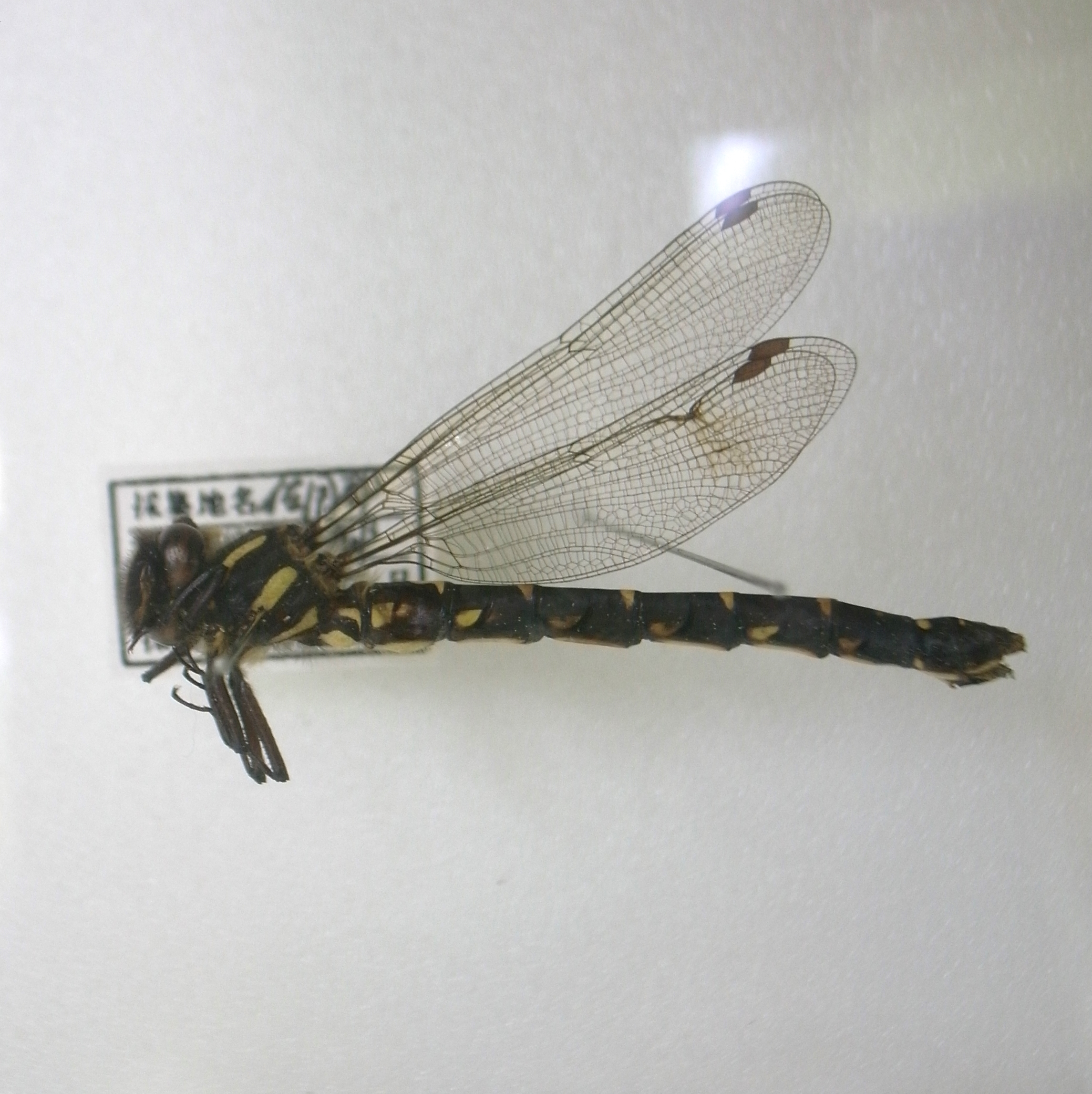 Relict Dragonfly(?), Sayo Insect Museum, Hyogo, Japan